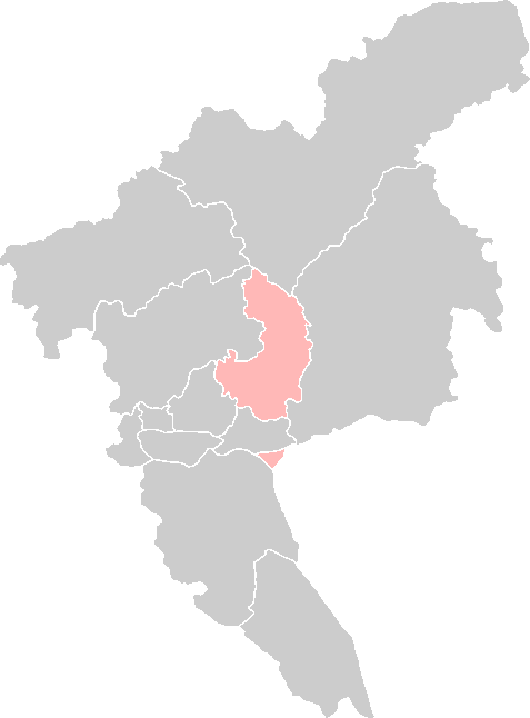 A Blank Map of Guangzhou Map